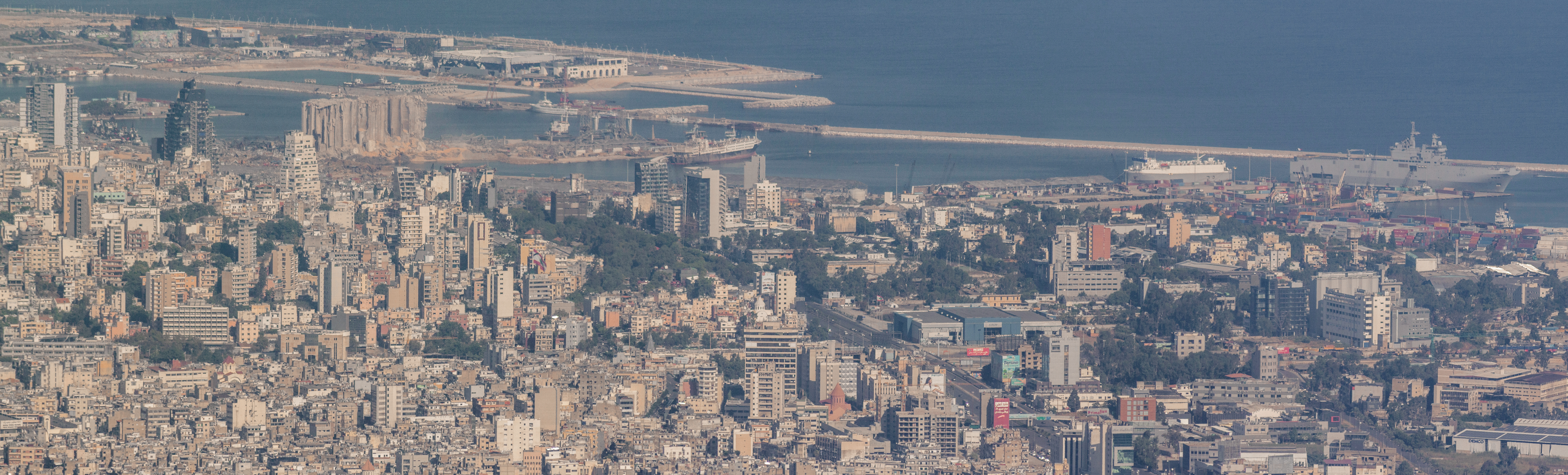 Port of Beirut 11 days after the explosion.